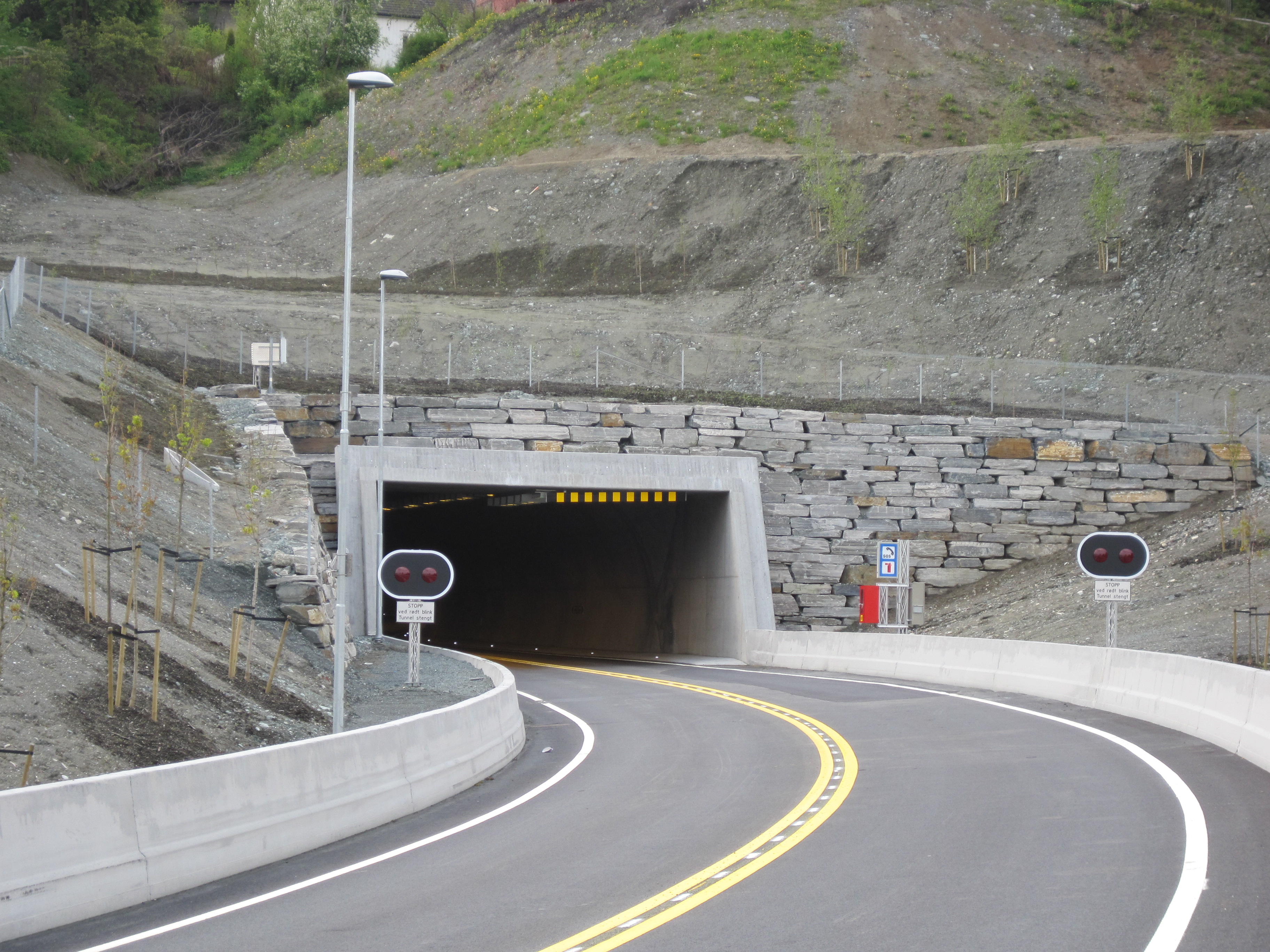 Entrance to Marienborg tunnel in Trondheim, Norway.